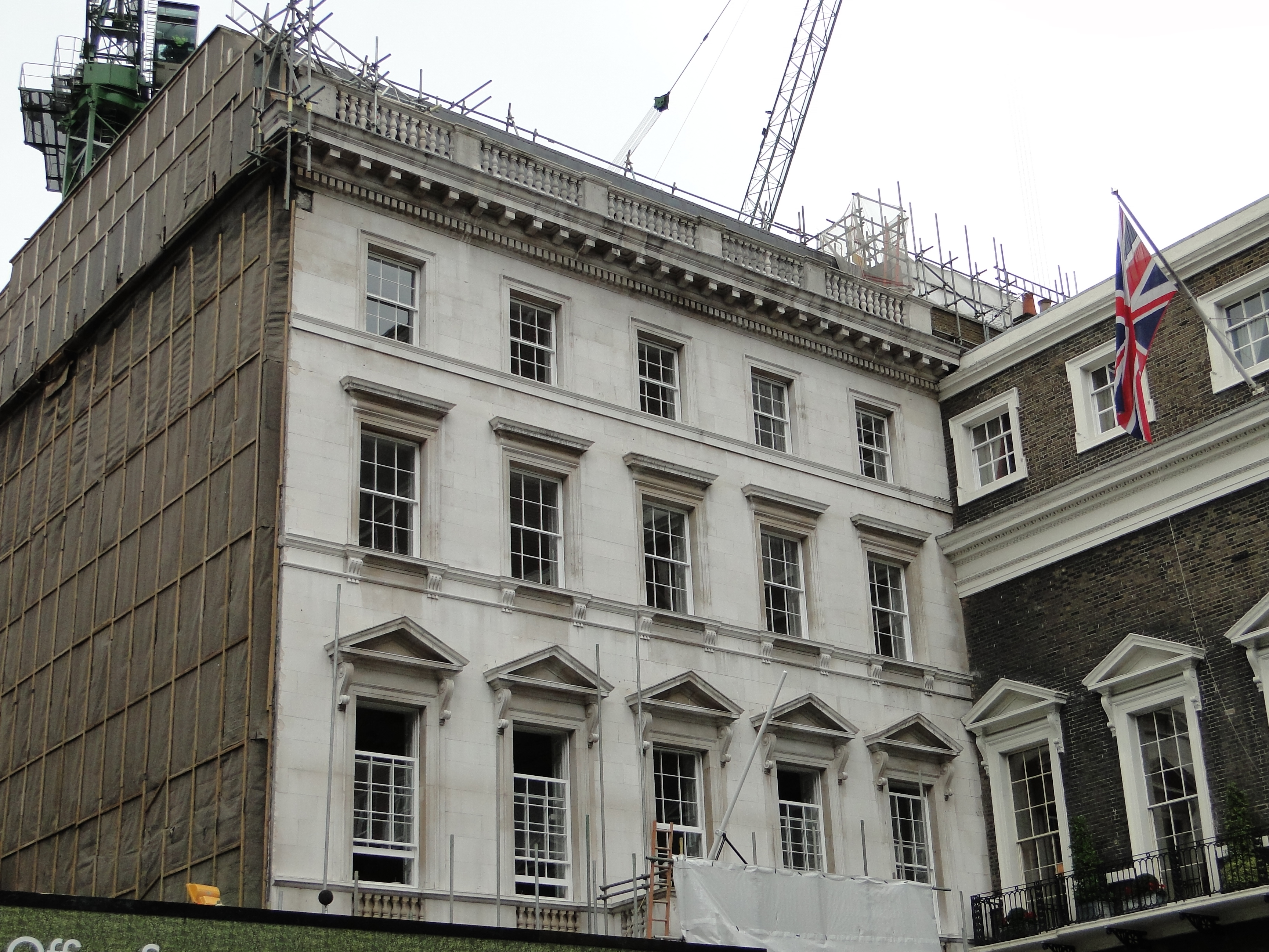 Former Libyan Embassy, 5, St James's Square, London, undergoing refurbishment in 2012. From here PC Yvonne Fletcher was shot in 1984.